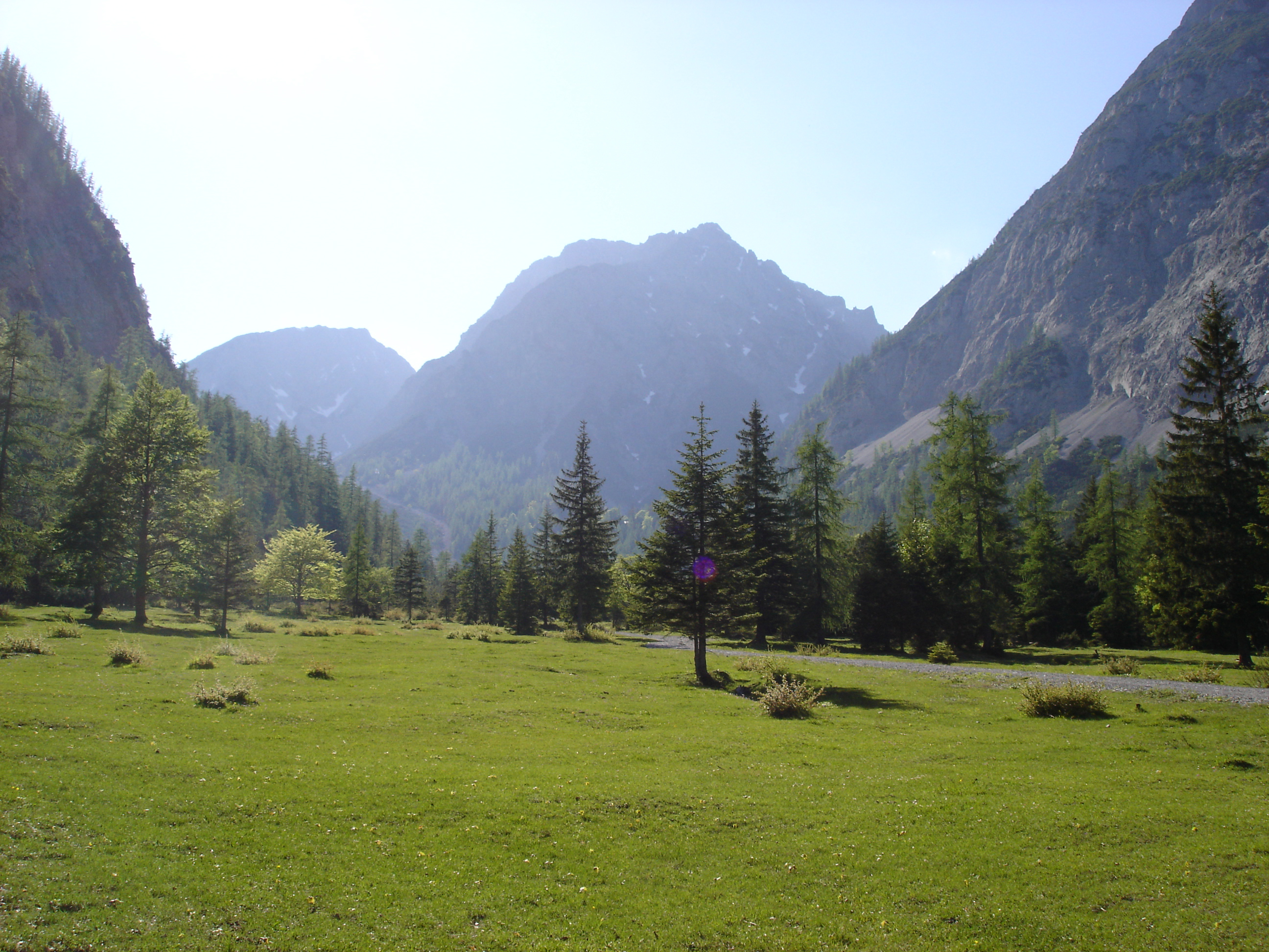 The Stallenboden in the Stallental, Karwendel, Tyrol, Austria. In the background Schafjöchl (left, 2157 meters) and Rauer Knöll (right, 2278 meters)